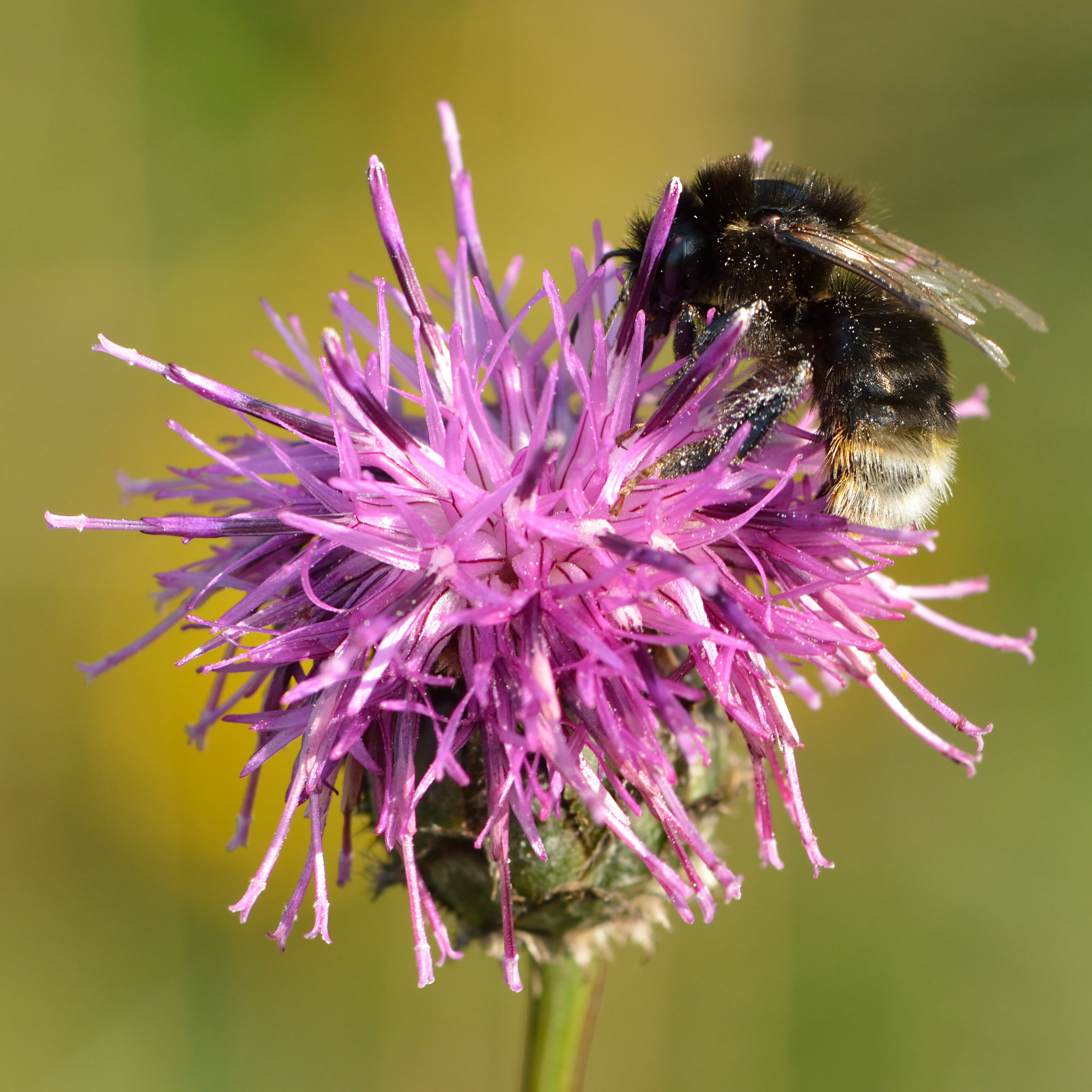 Broken-belted bumblebee (Bombus soroeensis subsp. proteus) on the greater knapweed (Centaurea scabiosa). Keila, Northwestern Estonia.